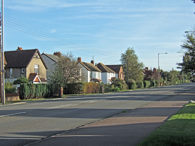 The A413 in Stoke Mandeville, going towards Wendover The pavement on the right is shared by cyclists & pedestrians. The houses on the left come just within the Weston Turville boundary.